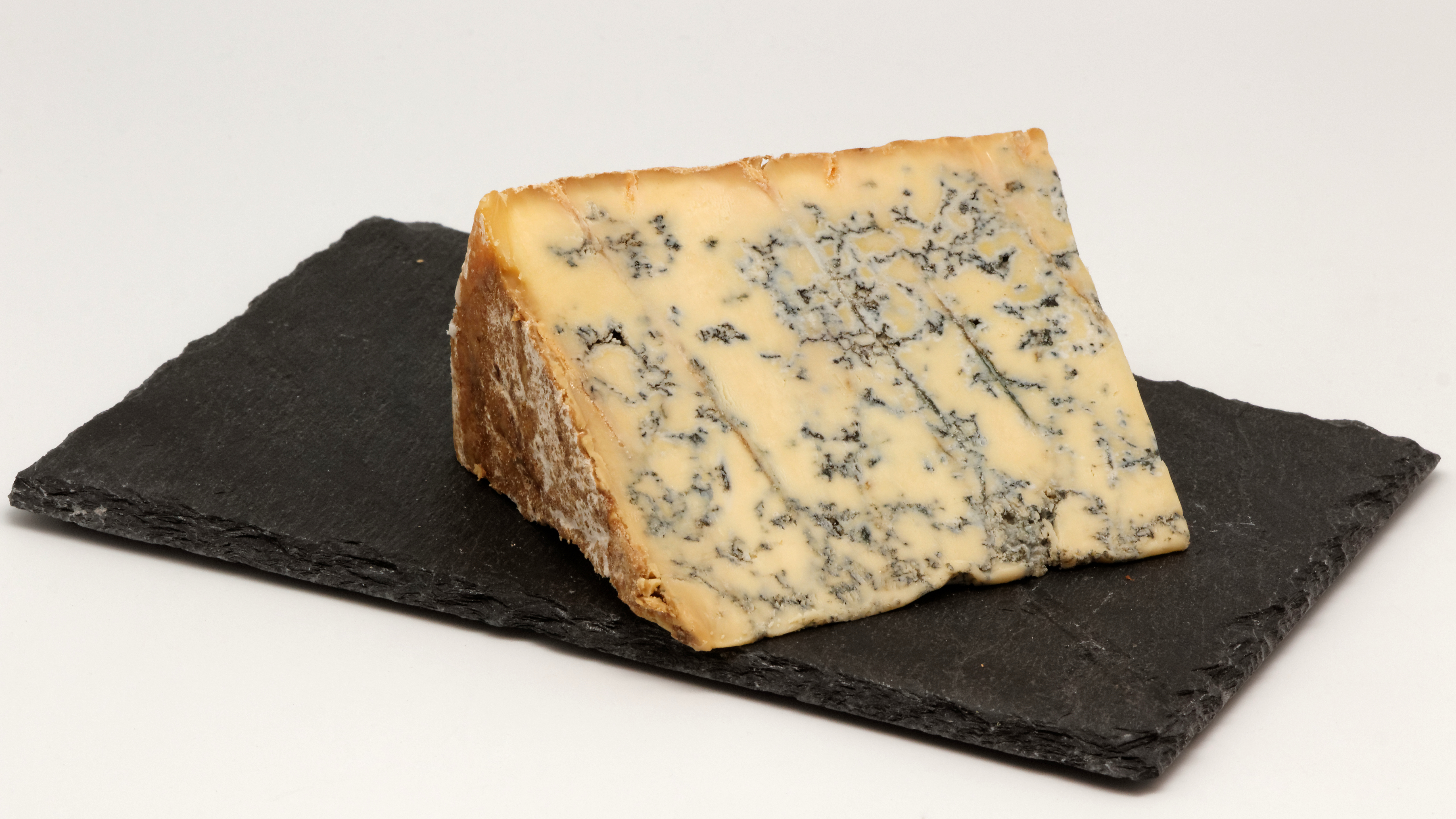 Blue Stilton